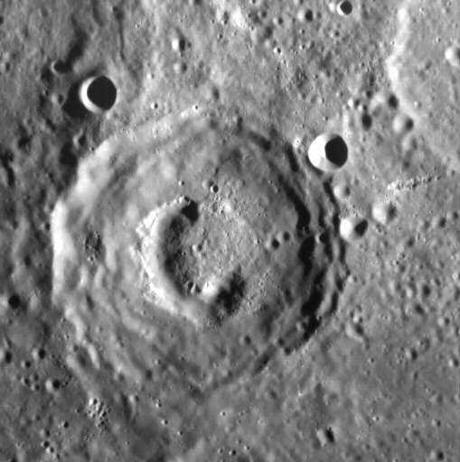 Beckett crater on Mercury. MESSENGER Narrow Angle Camera. North is at top. Emission Angle: 2.9 Incidence Angle: 73.8 Latitude: -40.1 Longitude: 111.5 Phase Angle: 76.6